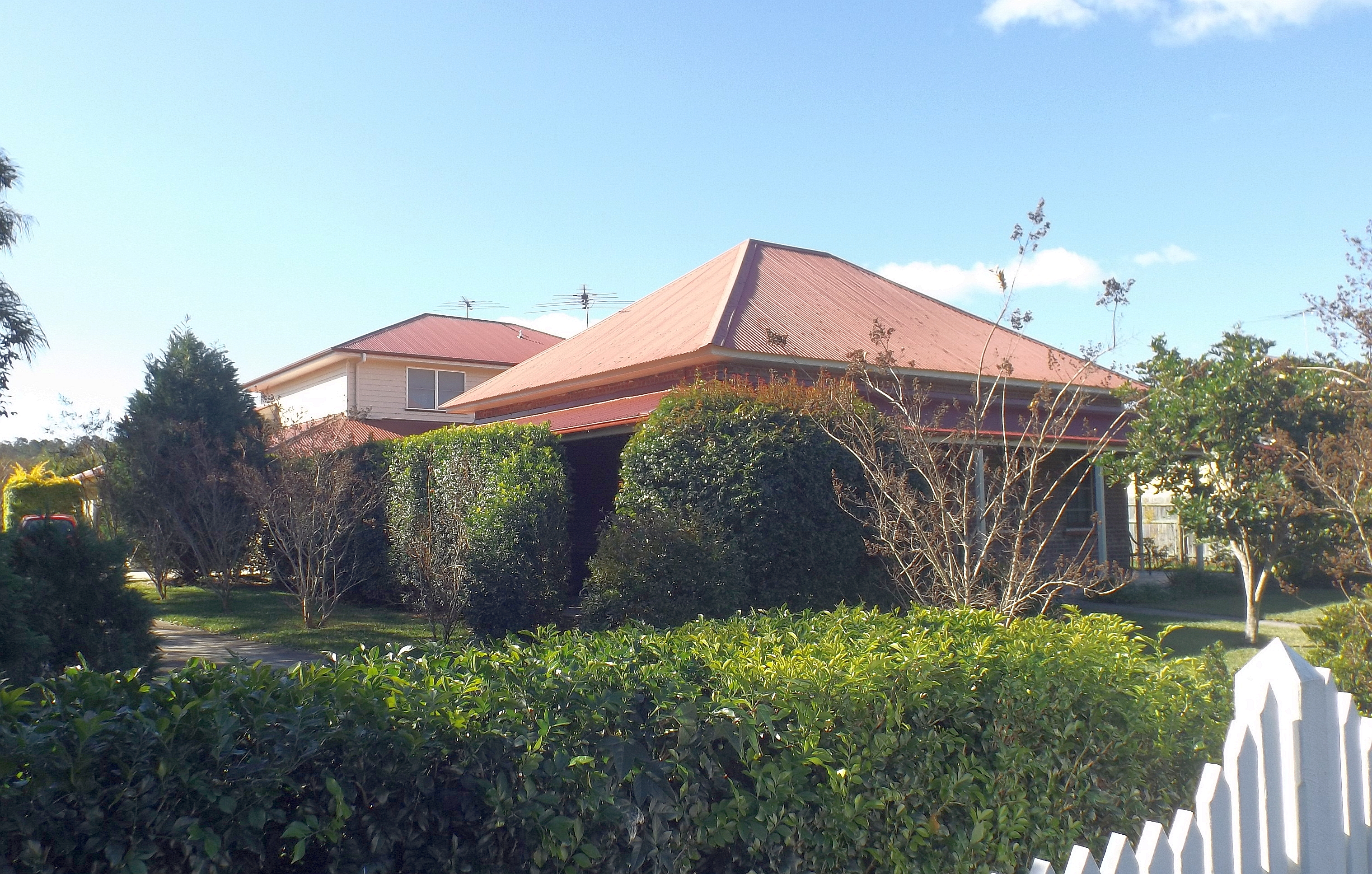 Photo of Killarney residence at Enoggera, Brisbane, Queensland, Australia.